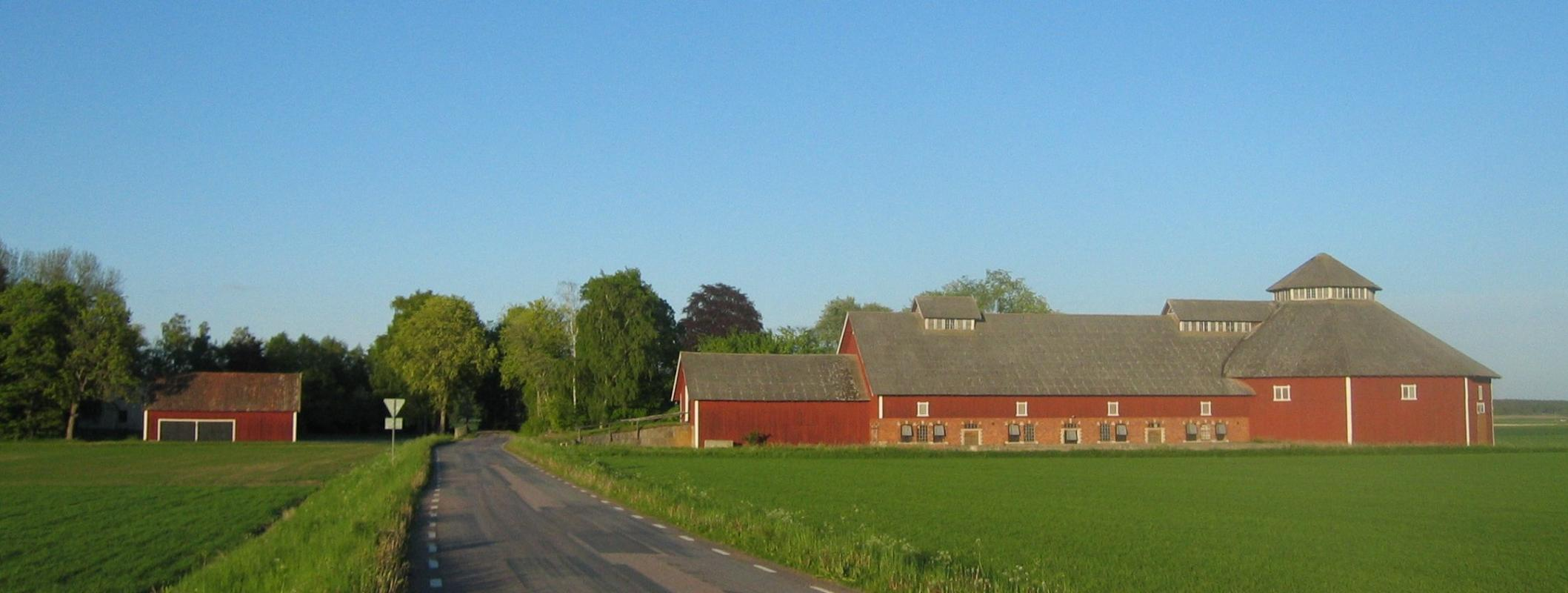 Red barn at the Stora Hyttringe farm, Motala Municipality, Sweden, probably built around the year 1900. The winding country road passes right through the homestead, with living houses among the trees on the left and the farm buildings to the right. While this was a practical arrangement for centuries, it is a traffic hazard in later decades, the speed limit being 70 km/hour (45 mph). The large building has a brick stables (ladugård) for cows and horses with hay magazine (höskulle) on the upper floor. Cows are fed by dropping down hay through holes in the magazine floor / stable ceiling. A stone ramp from the country road allows horse and carriage to drive right in with the new hay harvest. The ramp is partly roofed, allowing a parking garage for carriages. To the right is a "round" (eight-corner) hall (loge, rundloge) for threshing. The wooden parts of the building are painted with the special Swedish red paint (Falu rödfärg), a biproduct from the production of copper at Falun, allegedly with the function to protect wood. Corners and windows are decorated with white panels, in accordance with Swedish traditions. It doesn't get much more Swedish than this (TM).